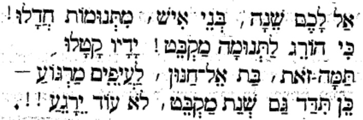 The first known translation of Macbeth to Hebrew, by Steinberg. Appeared in the Hebrew-language Maskilic journal "HaCarmel", published in Vilnius. This a rough and very shortened translation of the ""Sleep no more! Macbeth does murder sleep... Macbeth shall sleep no more!" lines (omitting Lady Macbeth's words etc.) from Act II, Scene II.